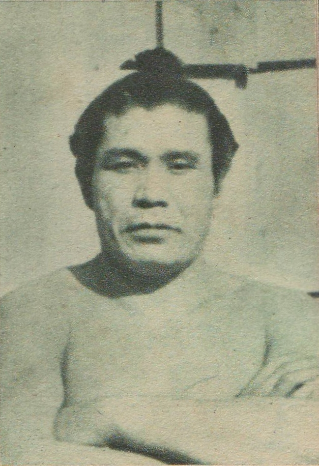 Yoshiiyama Tomoishiro (Sumo wrestler from Japan. Maegashira). Shooting earlier than 1955.